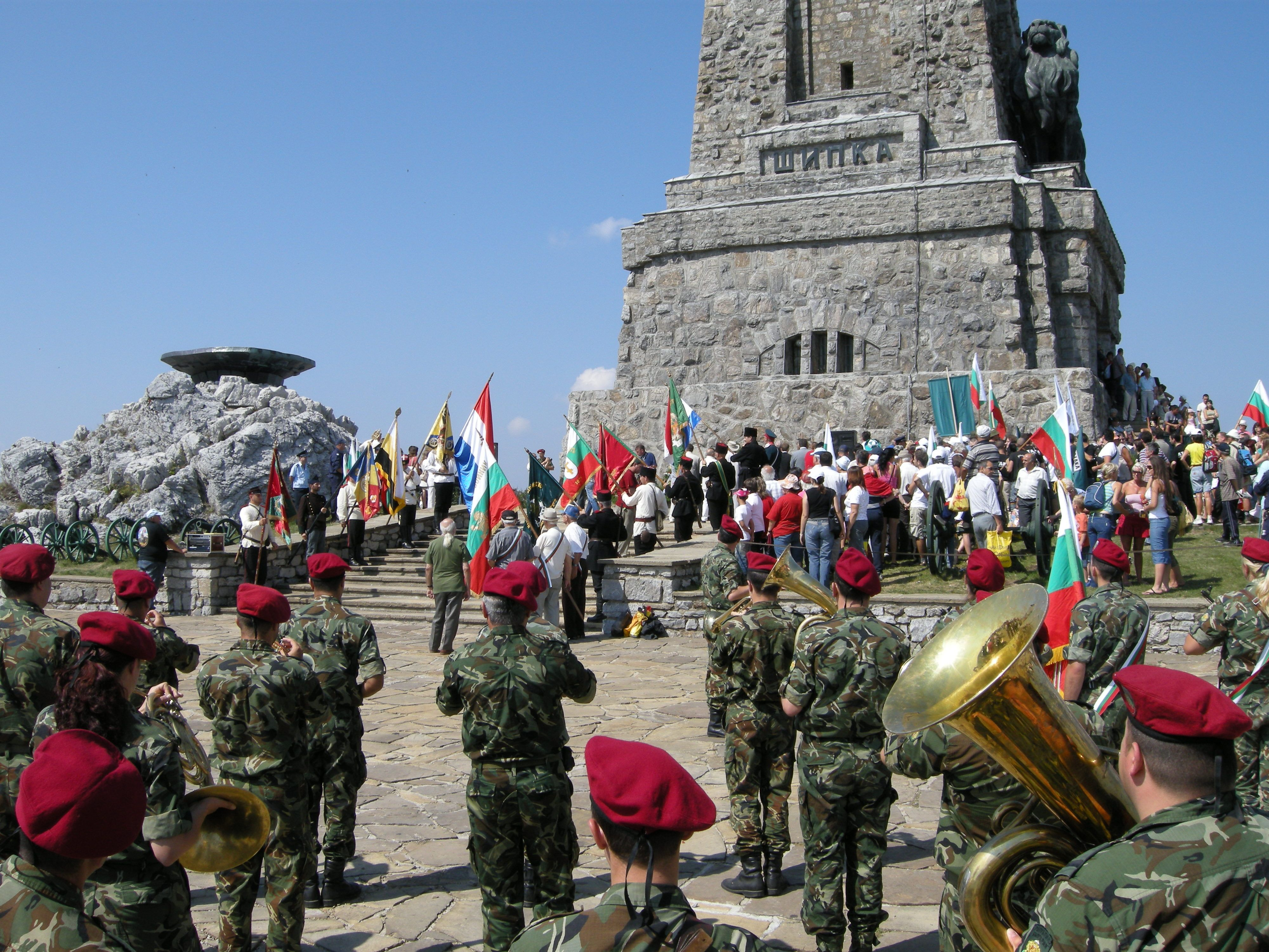 Wreaths for Bulgarian volunteers and Russian, Belorussian, Ukrainean, Finlandian and Romanian soldiers, died in the Battles for Shipka pass in 1877.